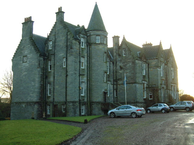 Stravithie House by Dunino